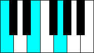 C mjor chord